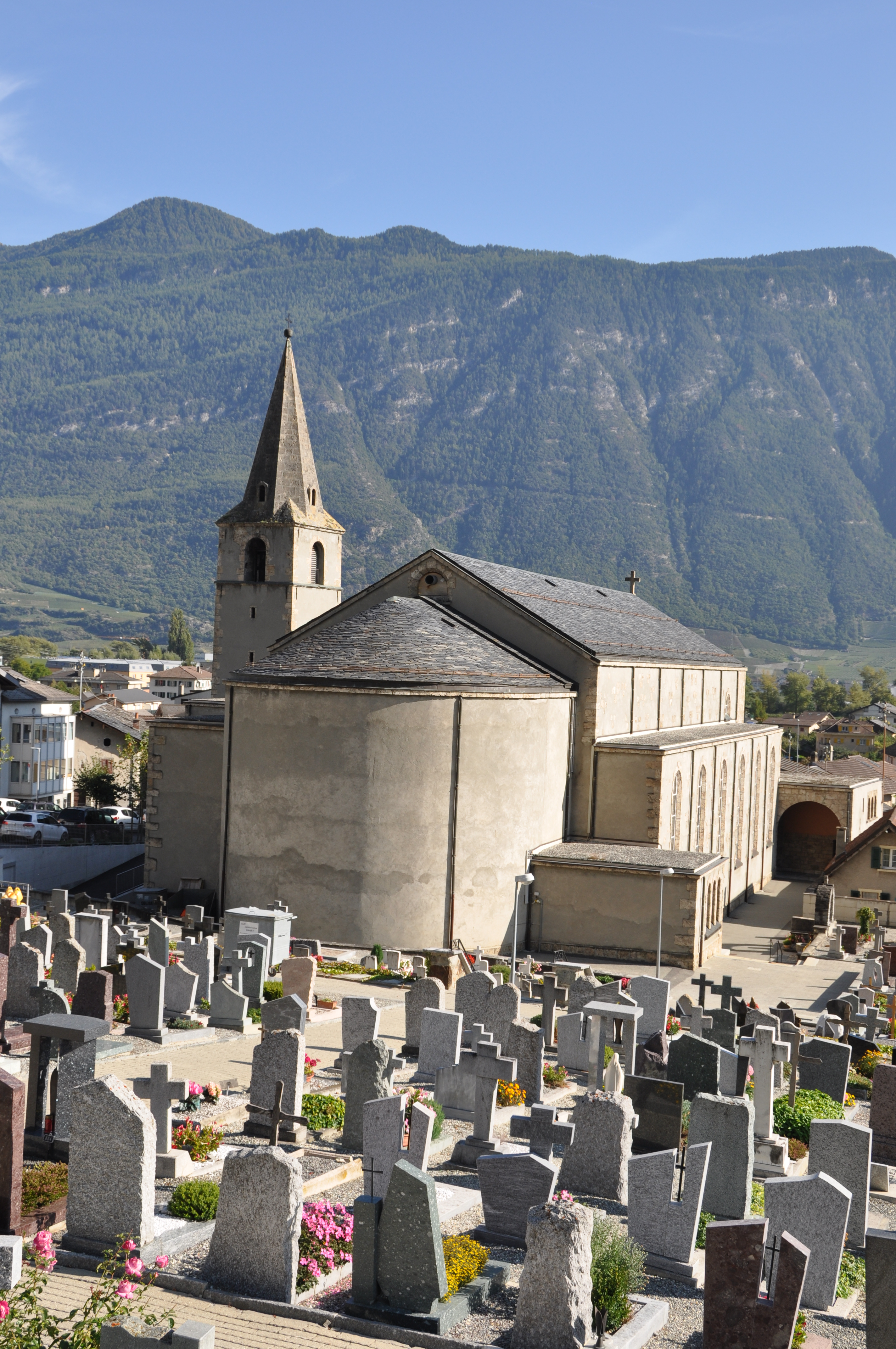 Église Saint-Symphorien (1934, peintures et vitraux d'Edmond Bille)